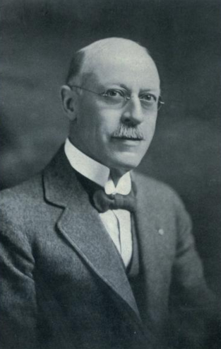 Photograph of Alexander Frank Wickson, Toronto architect. Taken soon after his election as President of the Royal Architectural Institute of Canada (1919)